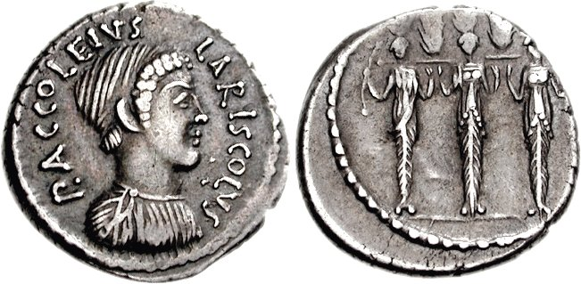 Denarius minted by P. Accoleius Lariscolus in 43 B.C., depicting Diana Nemorensis (or possibly Acca Larentia); on reverse the triple cult statue of Diana Nemorensis supporting a beam holding five cypress trees